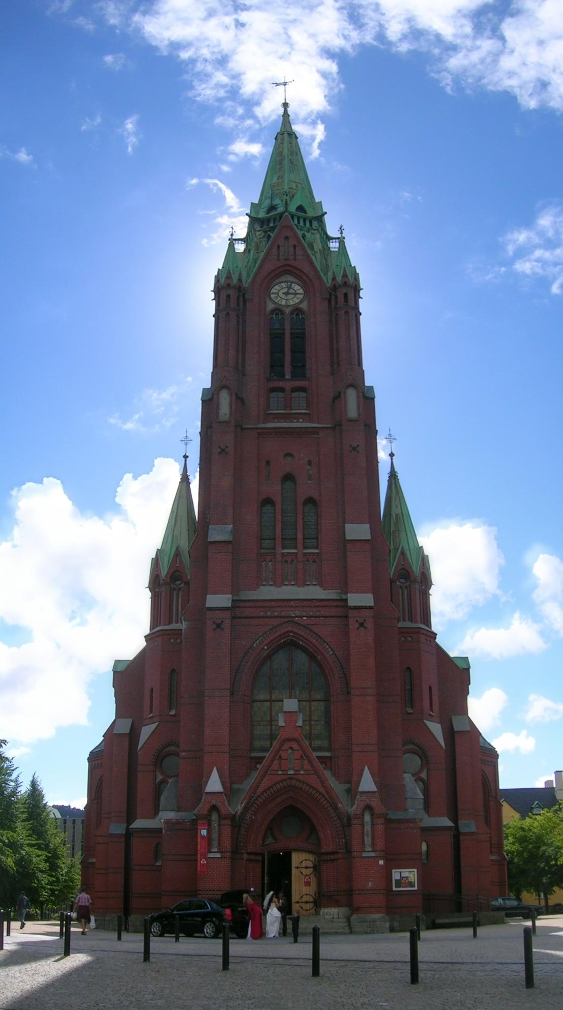 St Johannes Church, Bergen, Norway